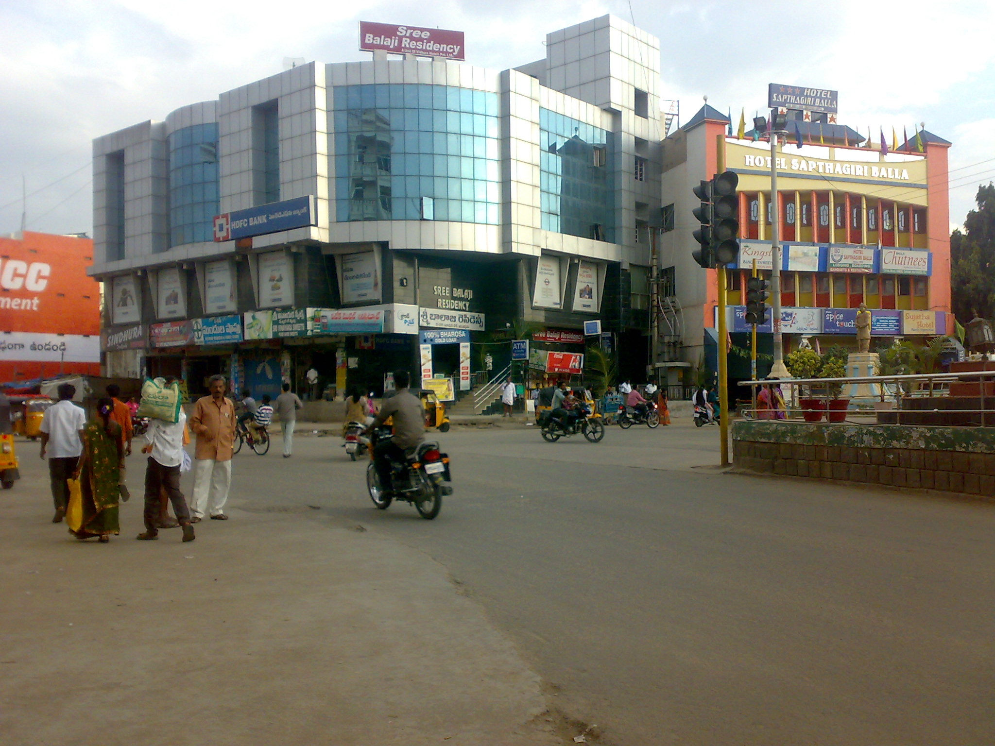 Sapatgiri Circle.ANANTAPUR